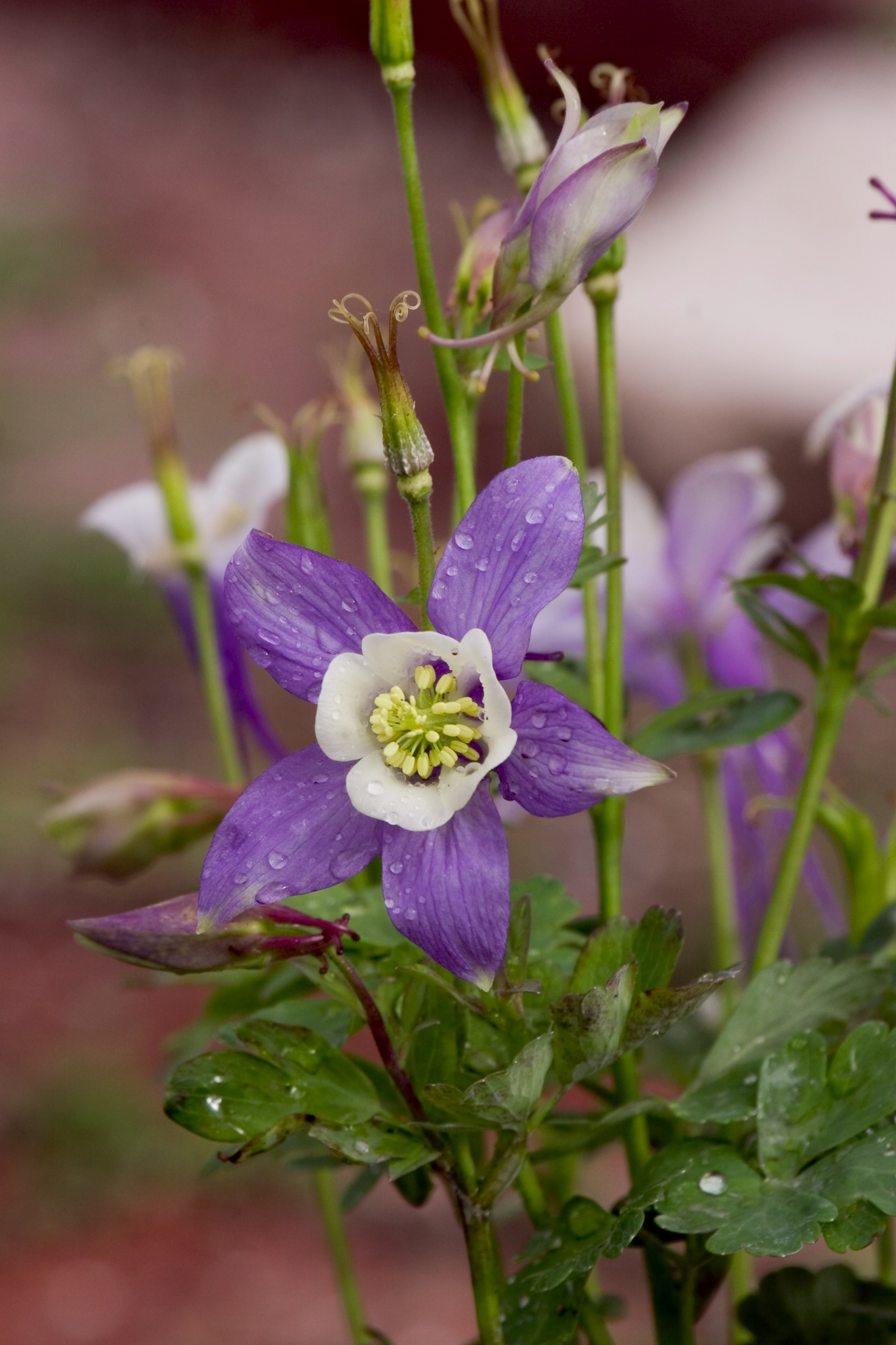 A Columbine flower (Aquilegia caerulea) in the garden